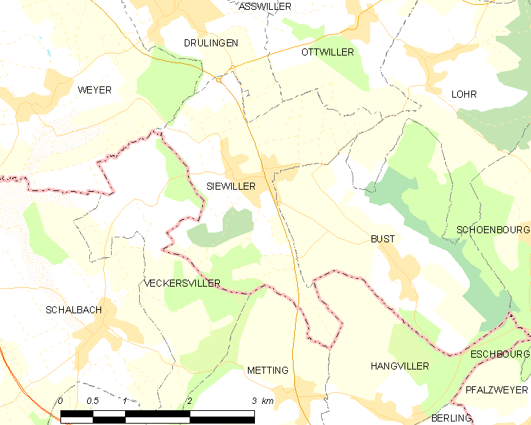 Map of French municipality